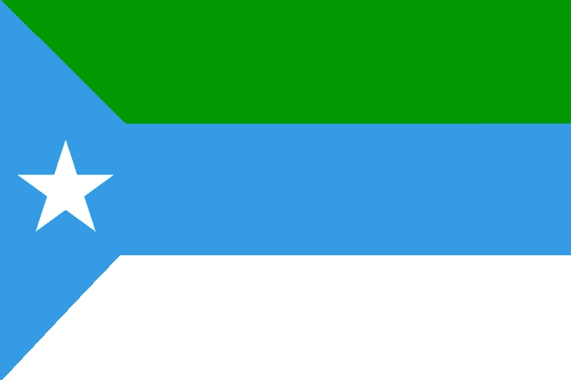 Jubaland State's flag with correct colours